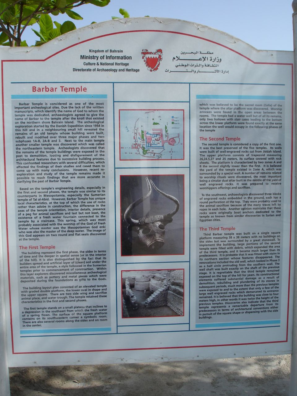 An information sign at the Barbar Temple in Barbar, Bahrain. The temple dates back to the ancient Dilmun civilization.